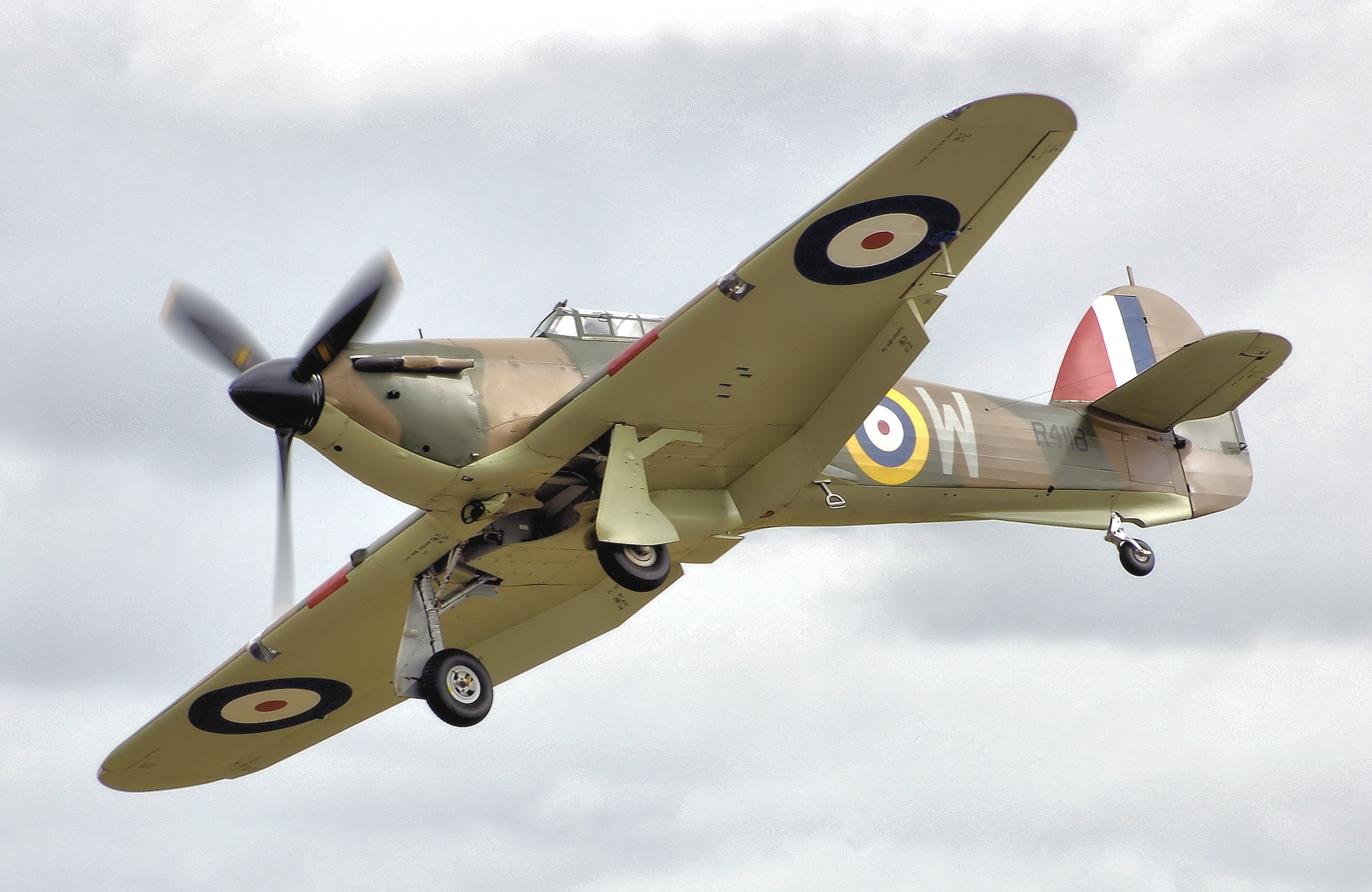 Hurricane Mk1, RAF serial R4118, squadron code UP-W, UK civil registration G-HUPW, at the Royal International Air Tattoo, Fairford, Gloucestershire, England. The aircraft was delivered new to 605 (County of Warwick) Squadron in August 1940. It flew 49 combat sorties from Croydon, England, destroying 3 enemy aircraft and damaging 2 others. Still painted in its original markings, R4118 is the only Hurricane from the Battle of Britain still flying. This picture was taken at RIAT Fairford on the Thursday before the show days of Saturday and Sunday. Later the show was cancelled, due to waterlogged car parks.